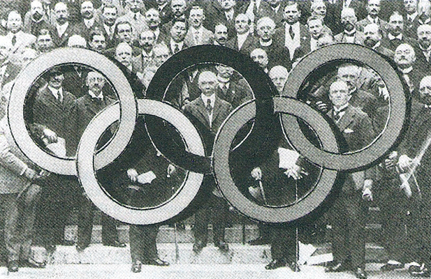 The participants of the Olympic Congress 1913 in Paris gathered around Pierre de Coubertin, overlayed with the new symbol of Olympic Games – the Olympic Rings photography, adapted reproduction, no restrictions on use Copyright: free of charges